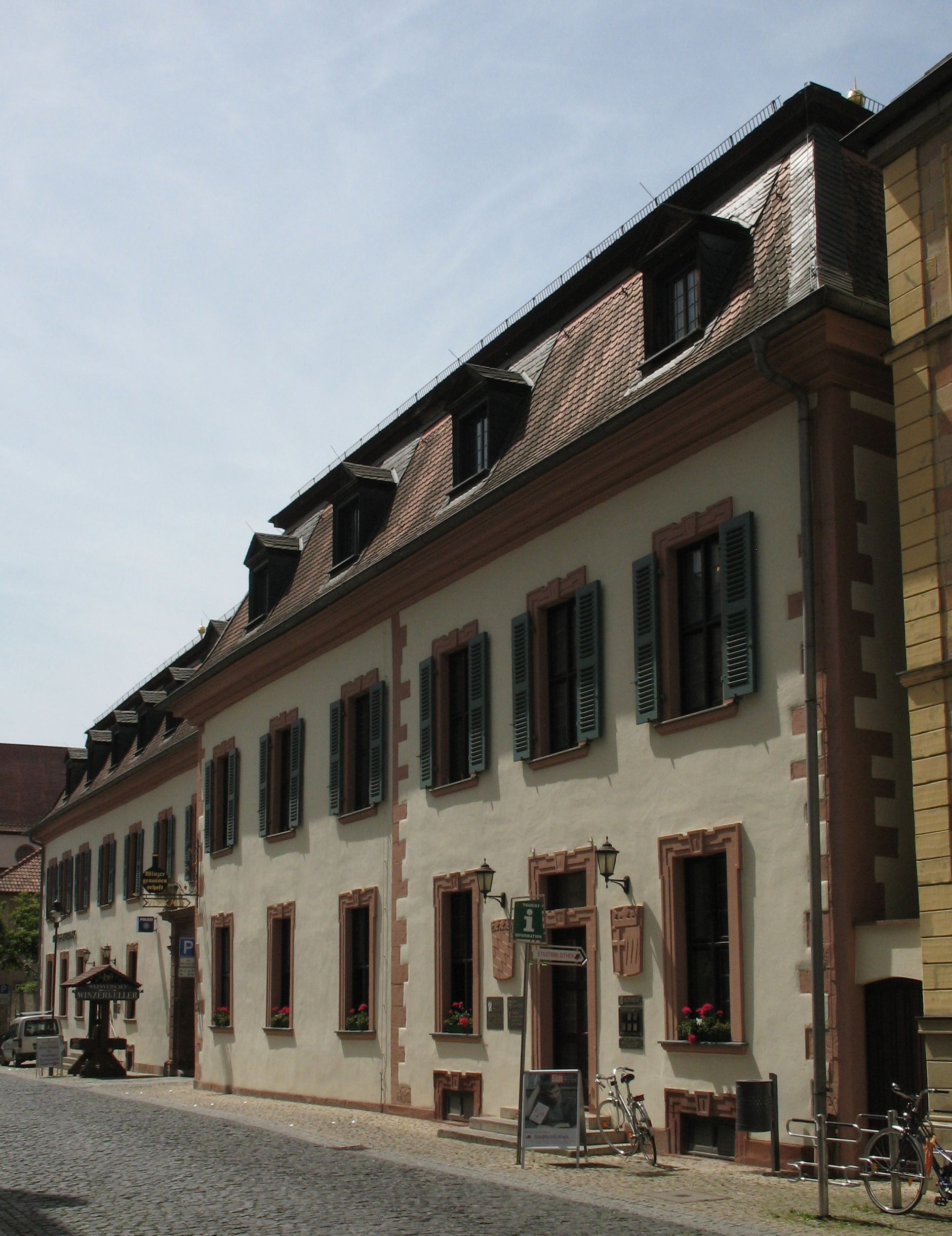 "Kellereischloss" in Hammelburg in Bavaria, Germany